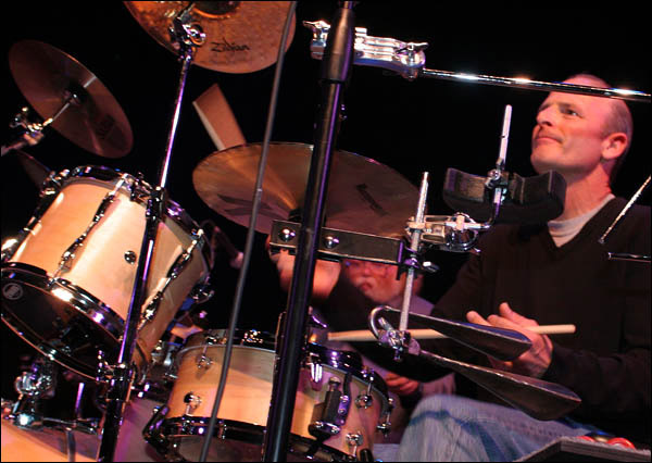 Joe DeRenzo - Jazz Bakery 2007